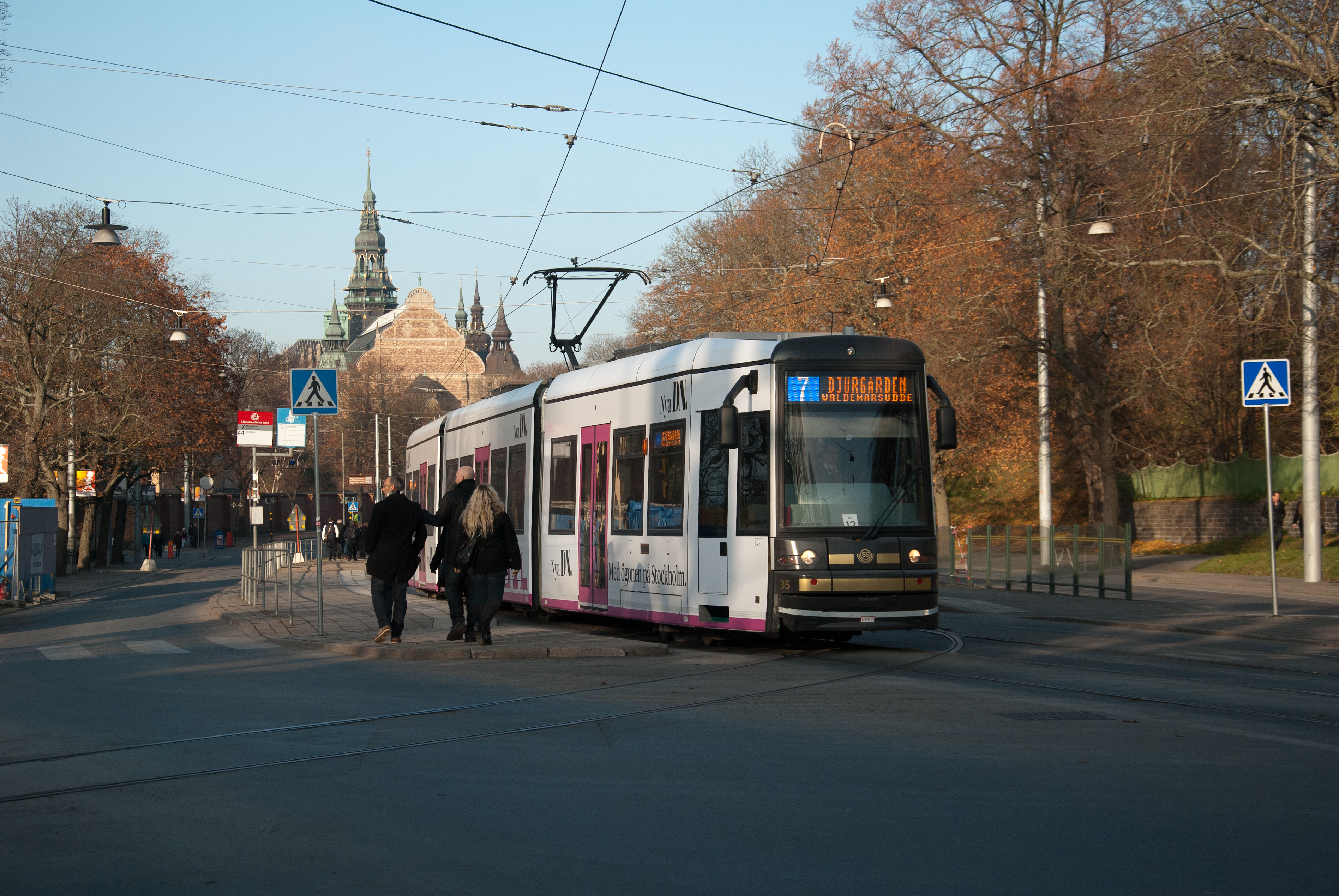 Tram at Djurgårdsvägen, Djurgården (Stockholm).